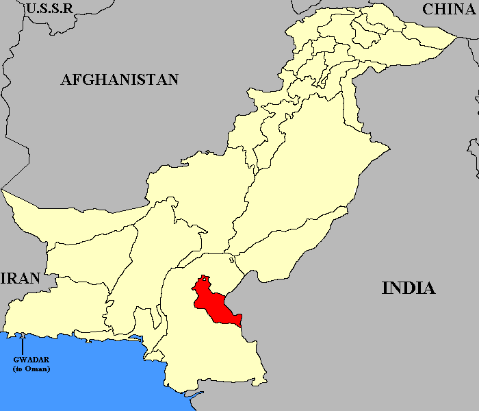 Approximate location of the former princely state of Khairpur within Pakistan